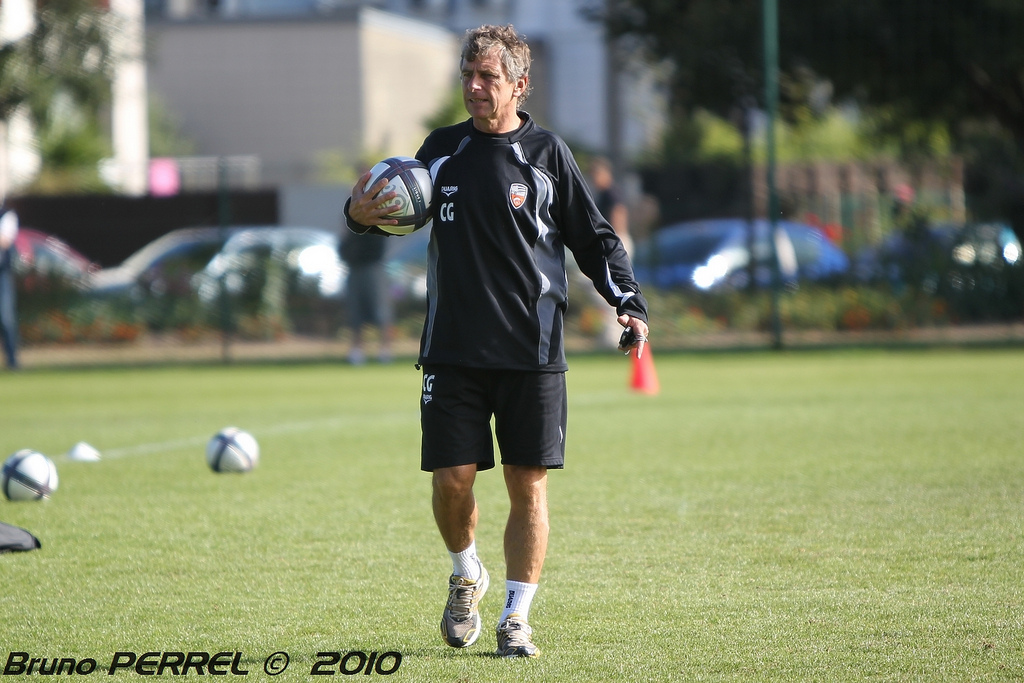 Crhistian Gourcuff, FC Lorient's soccer coach, during a training session during summer 2010